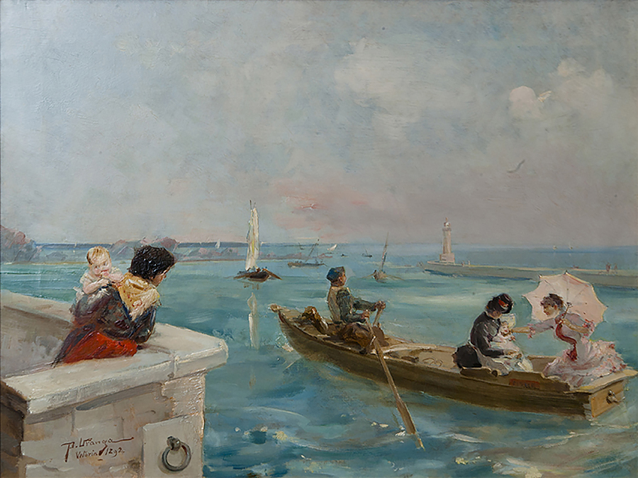 Afternoon Stroll